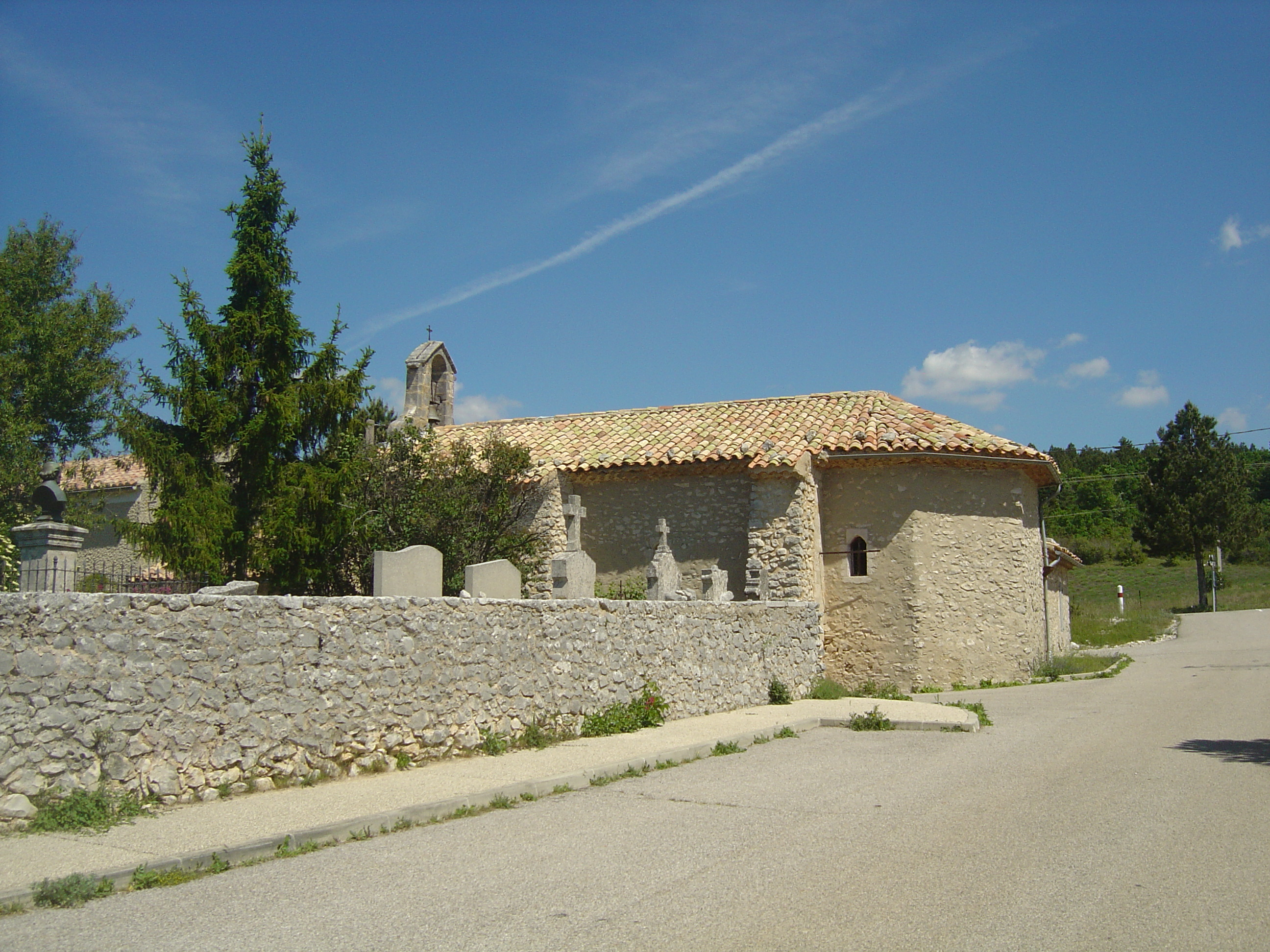 Chapelle Notre-Dame des Abeilles (973m) et cimetière sur la route du col de Notre-Dame des Abeilles (995m)